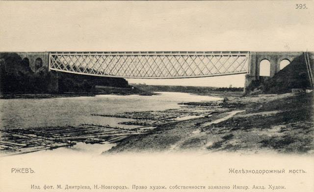 Pre-war rail bridge in Rzhev